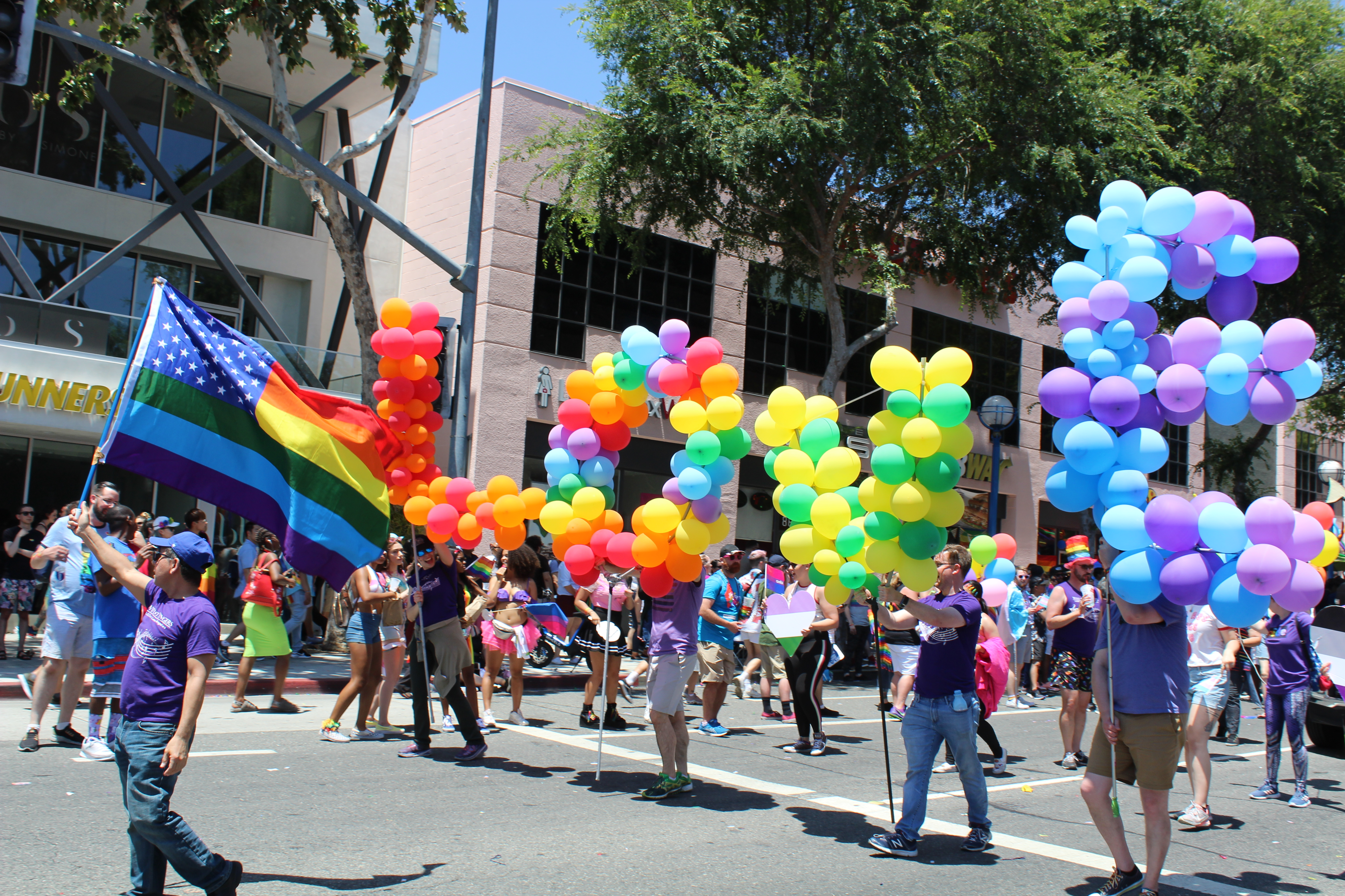 Location: West Hollywood Pride ParadeEvent type: Pride ParadeDate or year: June 2019